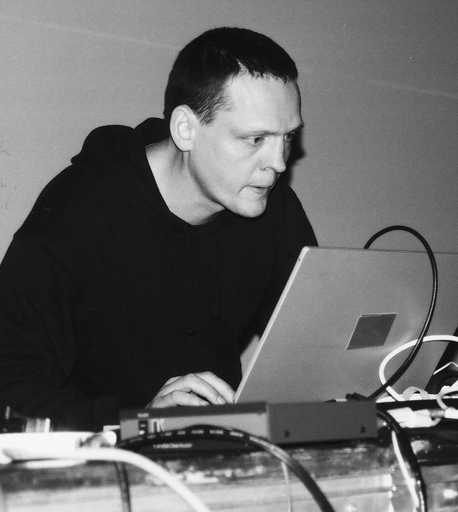 Author: Alex Reynolds Taken at Mutek 2004 (Montréal) Source: [1] © 2004 Alex Reynolds